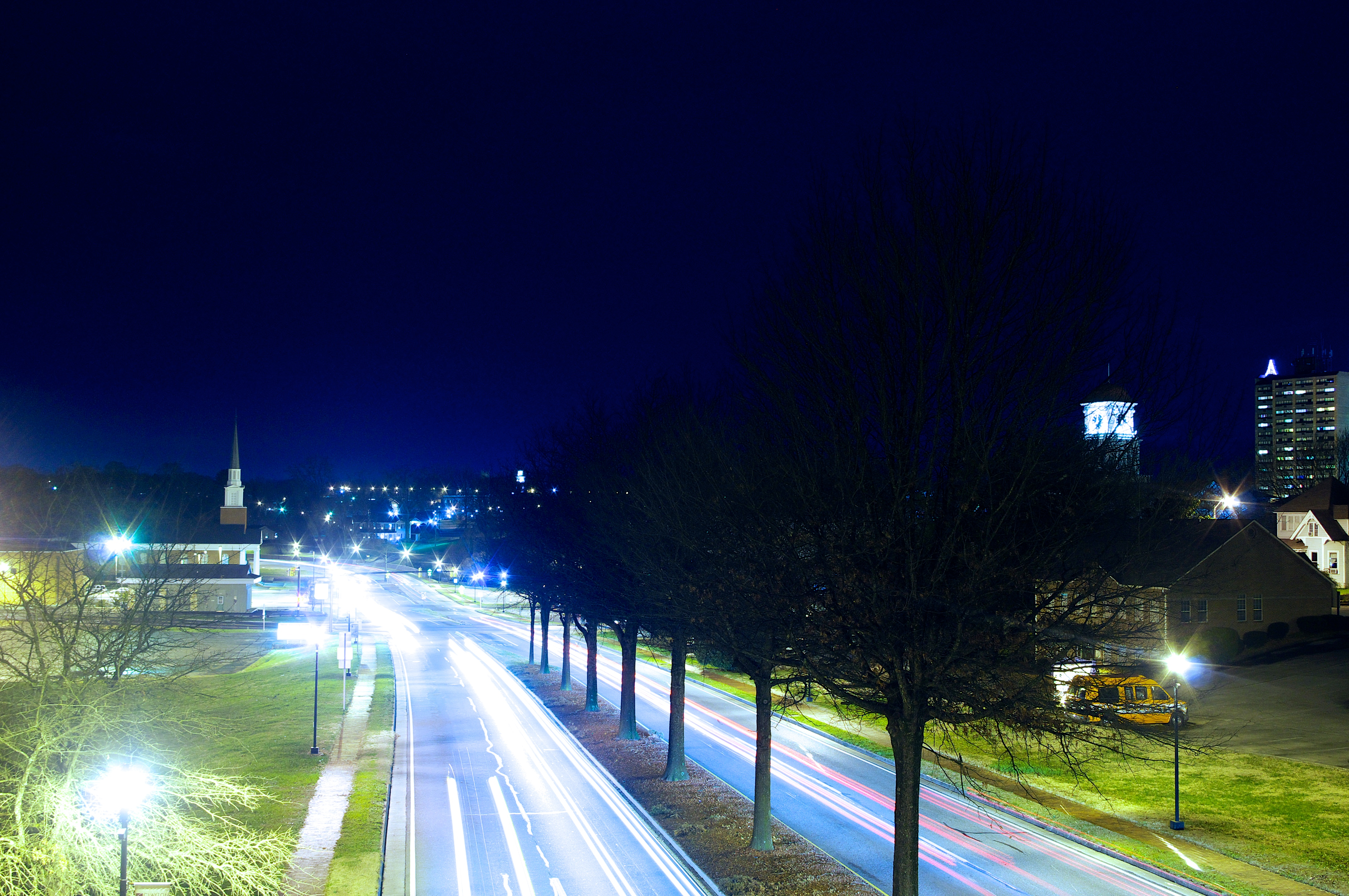 US 321 (Lamar Alexander Parkway) in Maryville, Tennessee, United States, viewed from the bridge over 321 near Maryville College.